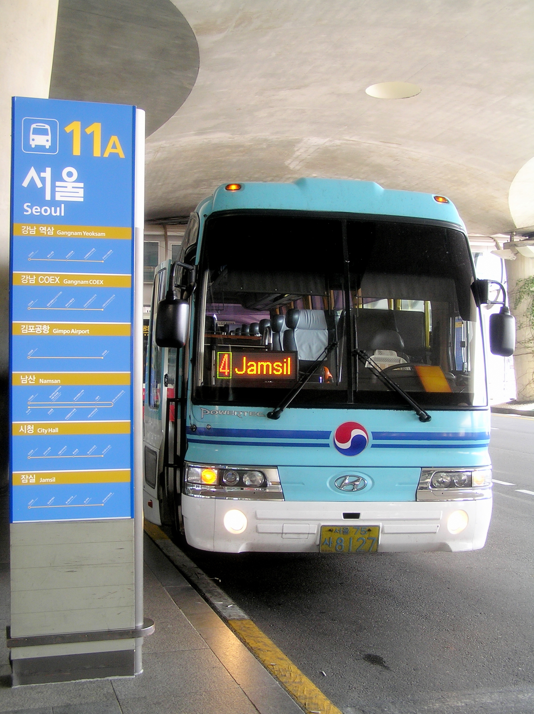 A limousine bus soon to depart from Incheon International Airport bus station to Jamsil subway station in Seoul.